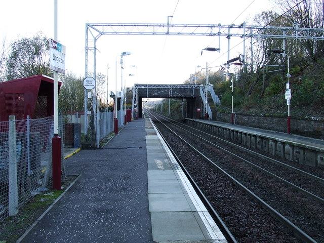 Bogston railway station, Port Glasgow, Inverclyde